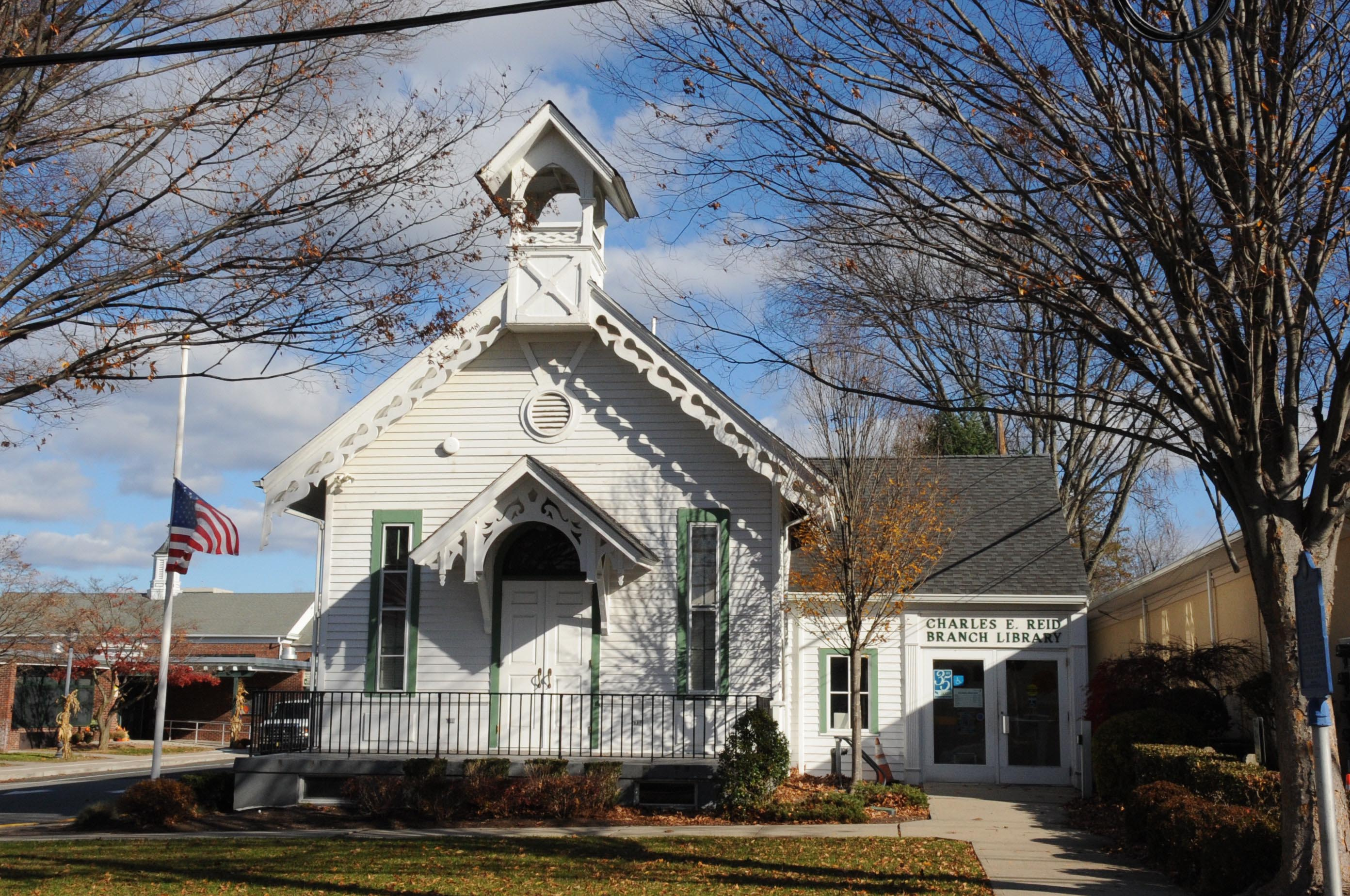 Built 1876 and used as a school, then the borough hall and finally the Paramus Public Library.